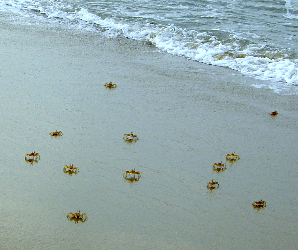 Crabs seem to enjoy warm Sun light - Chennai beach - India (Ocypode brevicornis)